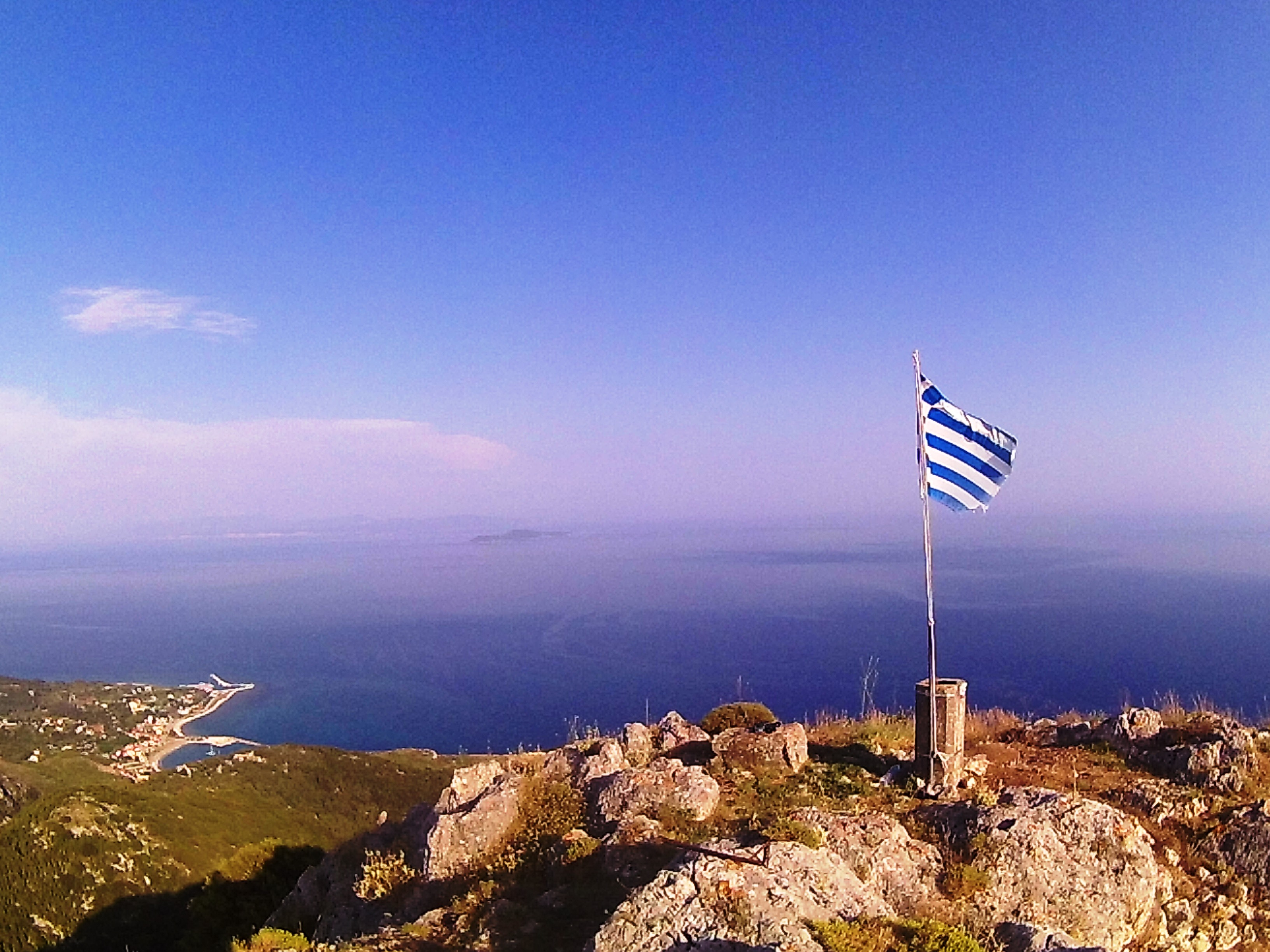 Othonoi island talest point